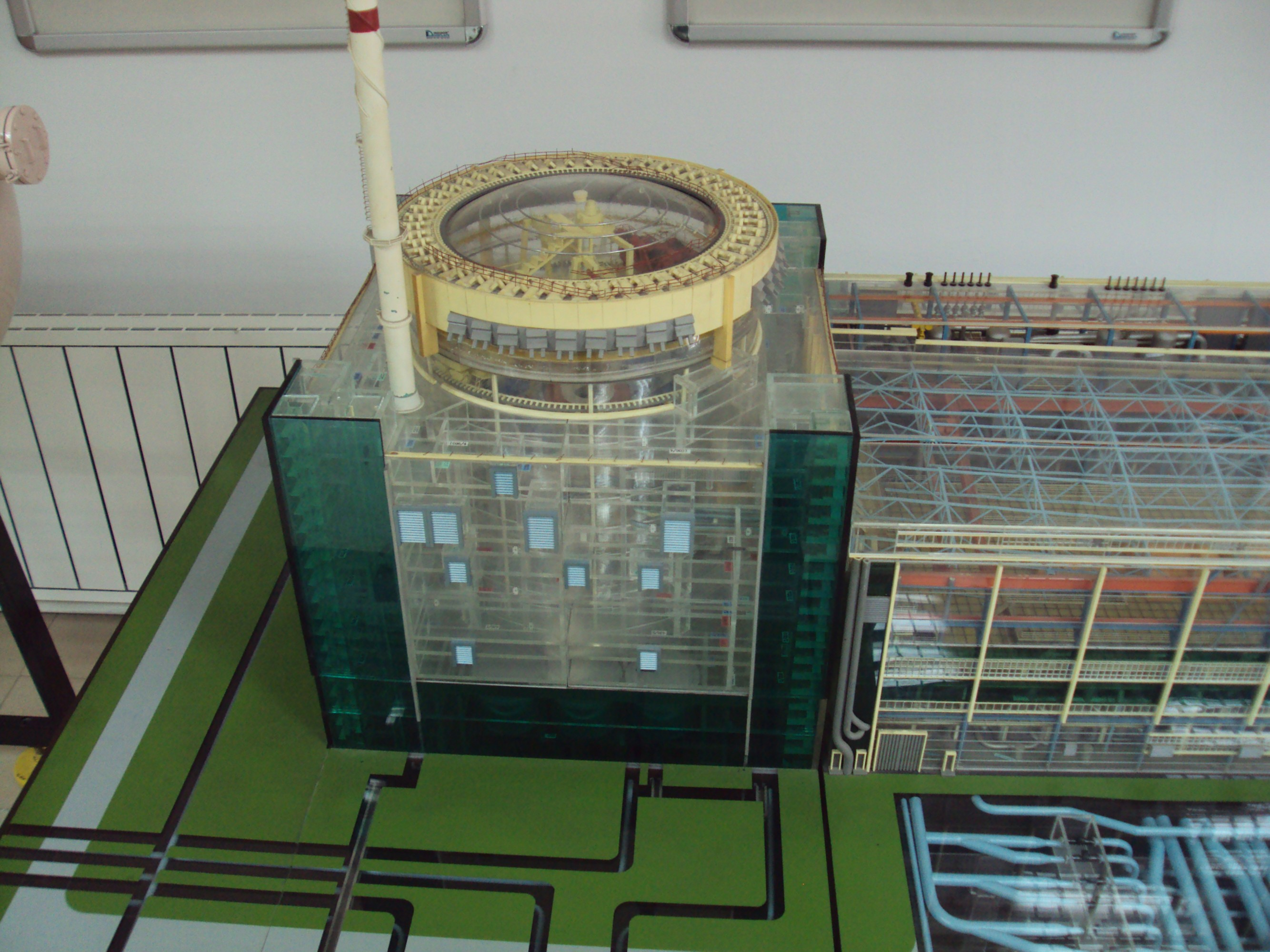 Kozloduy, Nuclear Power Plant in Bulgaria